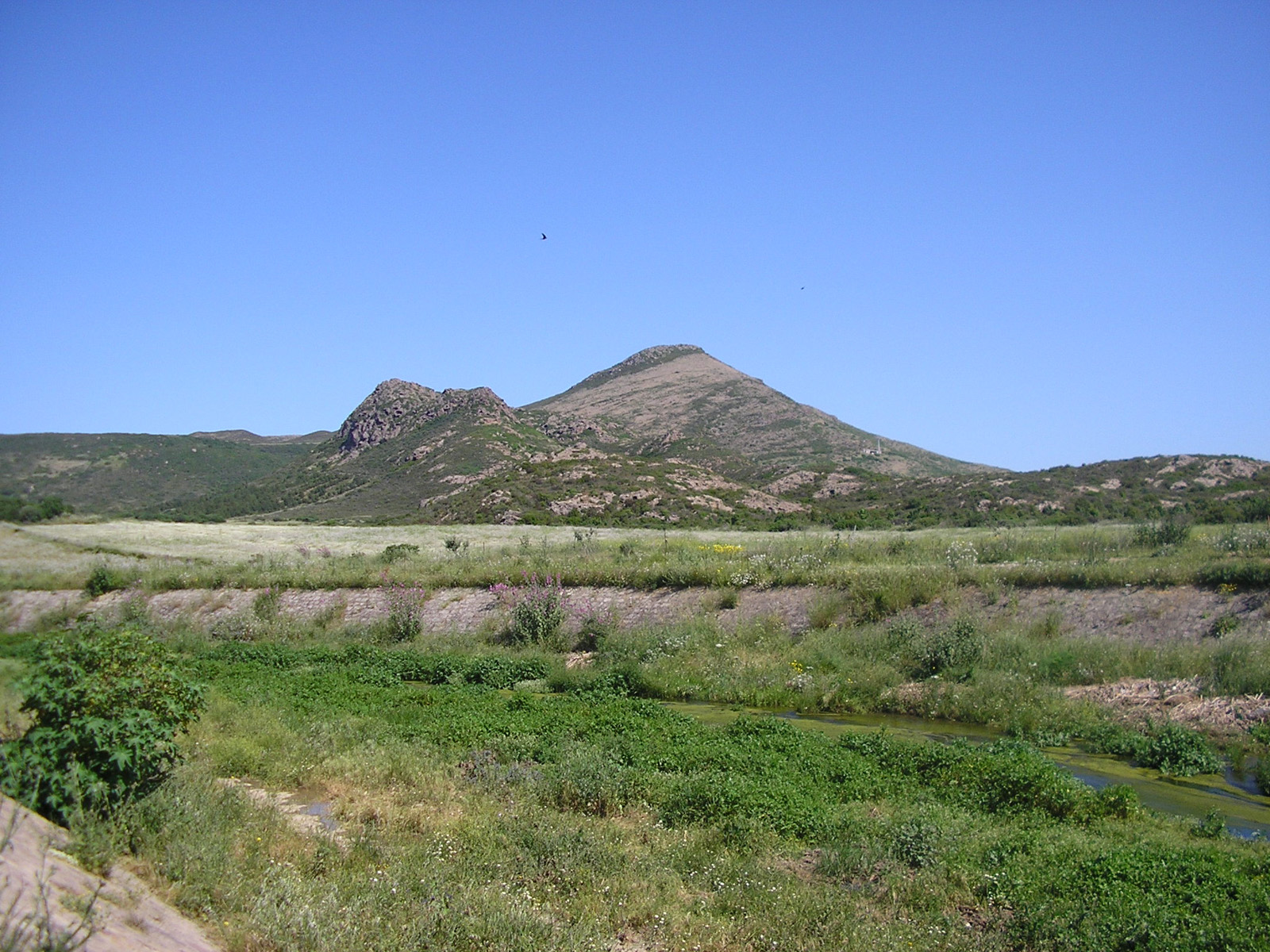 The Santu Milanu torrent near Is Gannaus, in the surroundings of Carbonia, Sardinia, Italy. In the background the hills of monte Crobu (left) and monte San Giovanni (right)